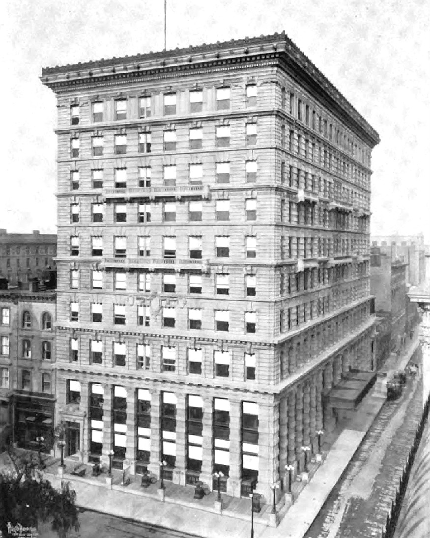 Photo of Louis Sherry's. Sherry's was located at Forty-Fourth Street and Fifth Avenue in New York City. The building's architects were McKim, Mead and White.